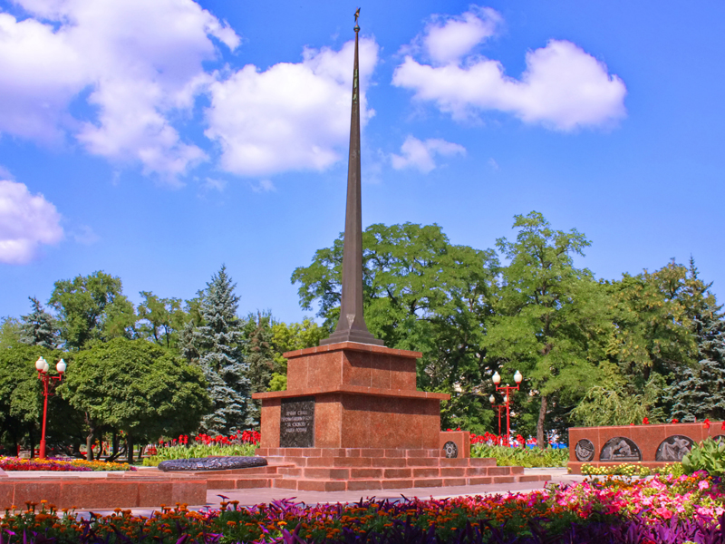 rtnrtynrty